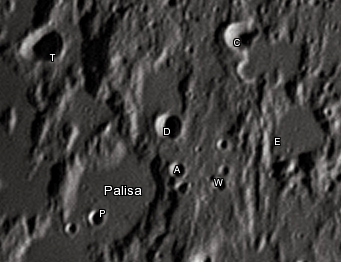 Palisa lunar crater as seen from Earth with satellite craters labeled